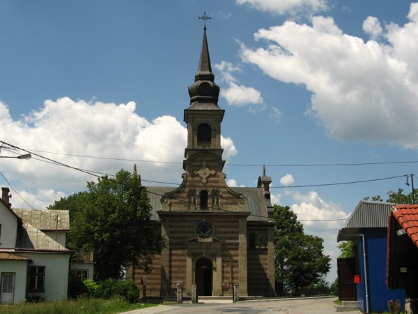 Saints Philip and James the Greater church in Mystków, Poland